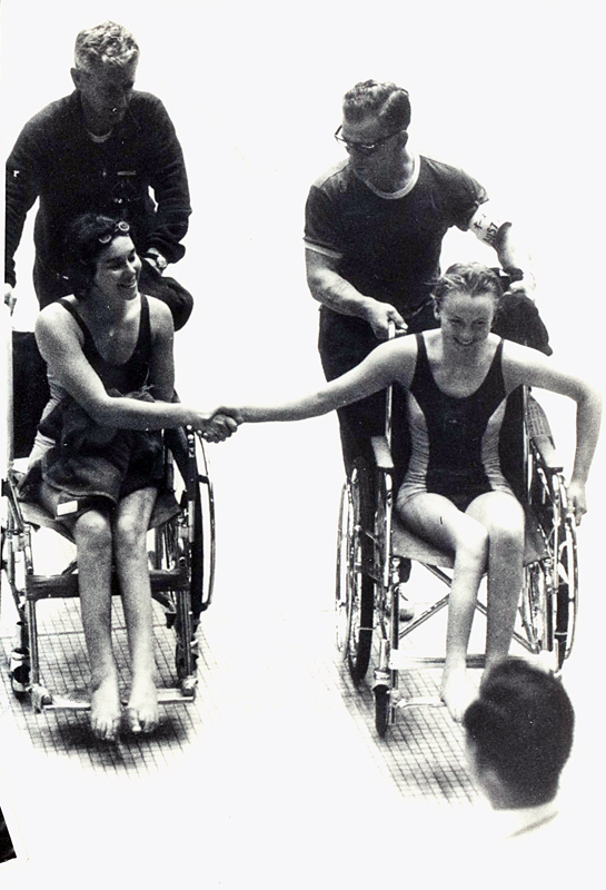 Australian Paralympic Team members Daphne Ceeney (now Hilton) and Elizabeth Edmondson shake hands after Edmondson won gold and Ceeney silver in the 50m prone swimming event at the 1964 Tokyo Paralympic Games. They are pushed by Kevin Betts (Ceeney) and 'Johnno' Johnston (Edmondson).